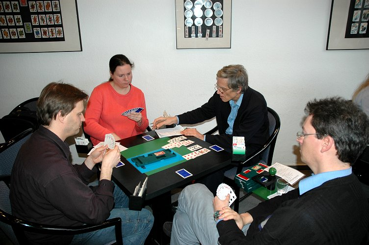 Bridgeplayer (Tournament in Hannover)